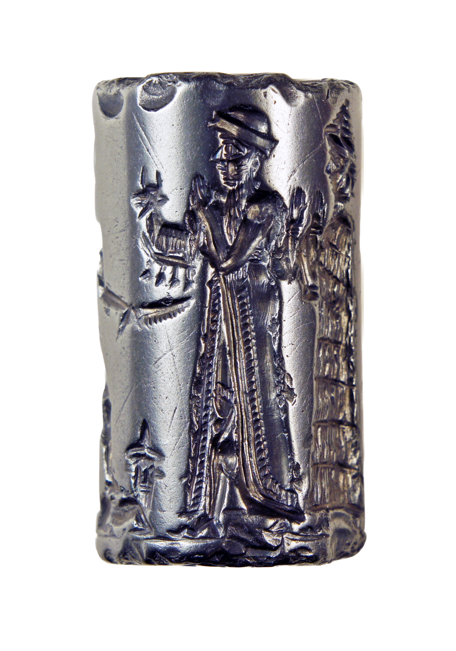 The king with a mace, who stands on a rectangular chequer-board dais, follows the suppliant goddess (with necklace counterweight), and the robed king with an animal offering. They stand before the ascending Sun god who holds a saw-toothed blade and rests his foot on a couchant human-headed bull (full face). Traces remain of an inscription (probably of four lines) erased in antiquity. The style of this seal suggests that it was made in a Sippar workshop. Haematite; chipped. 3.05 x 1.66 cm. This seal was among eight given to the school by Leonard Marshall in 1896. Ex. Charterhouse Collection (Charterhouse registry no. 2-1956-22) Published: Moorey, P.R.S. and Gurney, O.R. (1973), ‘Ancient Near Eastern Seals at Charterhouse’, Iraq, 35, p.76, no.13, pl.34. Sotheby’s sale catalogue, The Charterhouse Collection, London, 5/11/02, Lot 142.